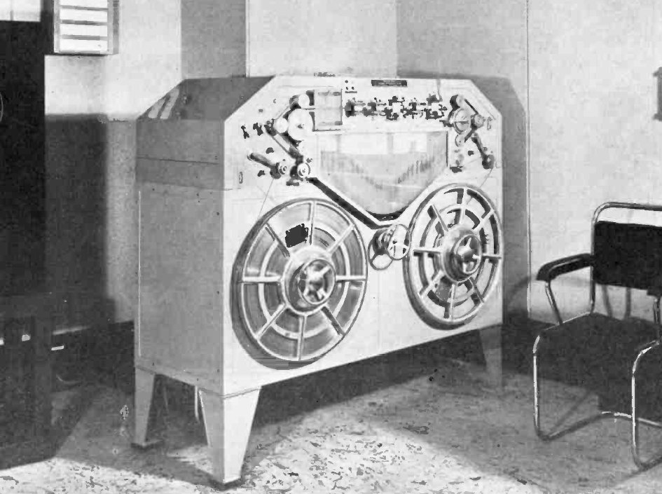 Blattnerphone steel tape recorder, an early magnetic recording technology, developed by Dr. Kurt Stille and Louis Blattner in 1924, at BBC studios, used to record programs for rebroadcast in Empire countries. The recording tape was 3mm wide and 0.08 mm thick, and traveled at 1.5 meters / second. It was limited to voice programs as it did not have the fidelity to record music. Caption: "One of the Blattnerphone BBC recording machines on which the programs are recorded by a magnetic process for Empire broadcasting"